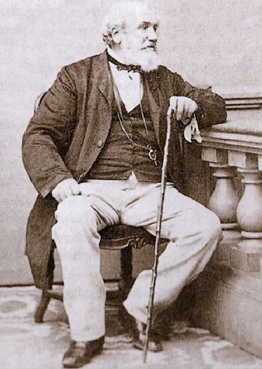 Portrait of Andrew Geddes Bain(1797-1864) builder of passes and roads Author long deceased